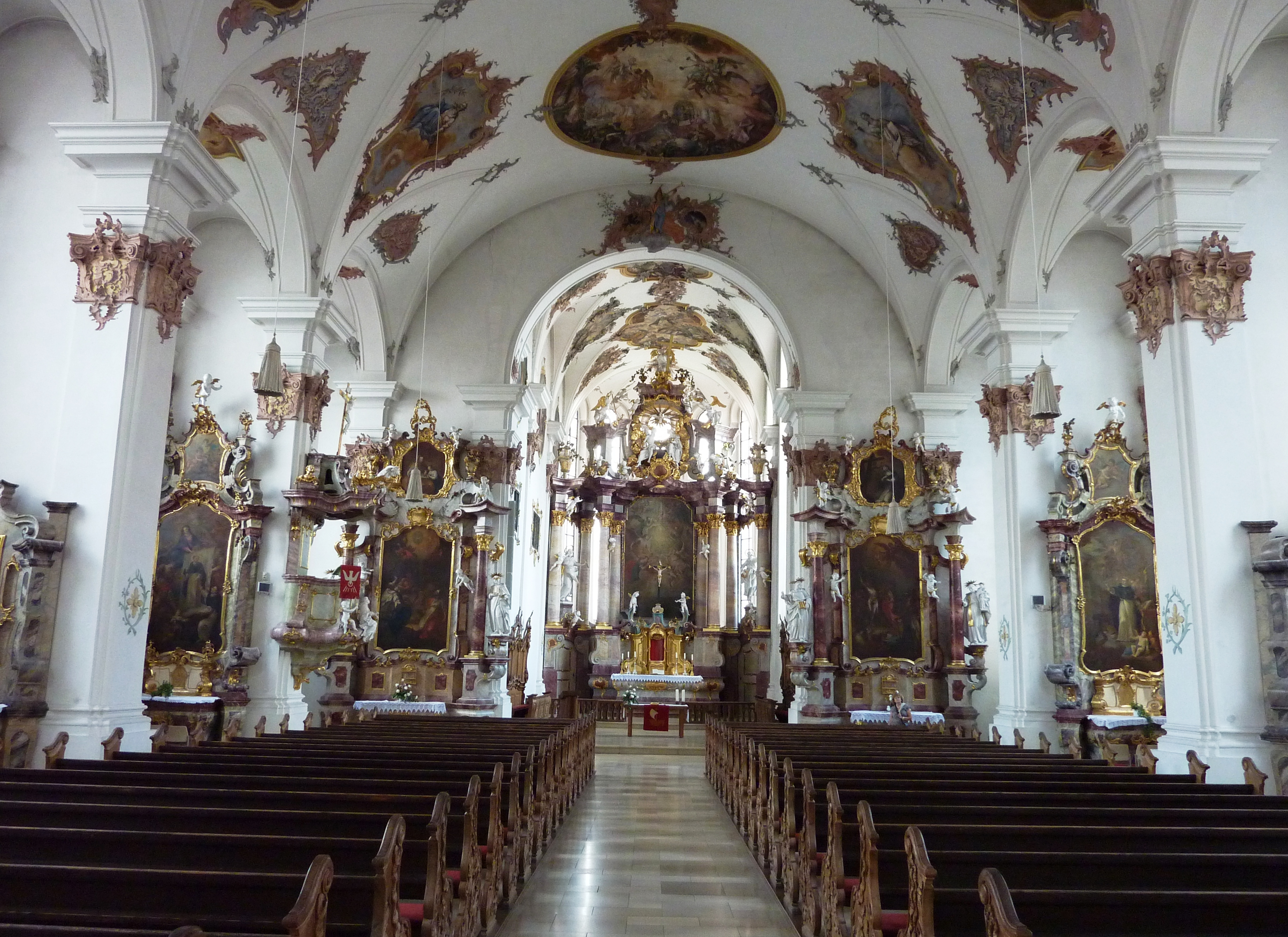 Internal view of the Preacher-Church in Rottweil (Germany)